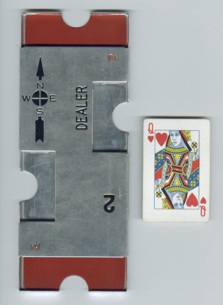 Board, duplicate bridge. Created 2005-01-06 by Ray Spalding.